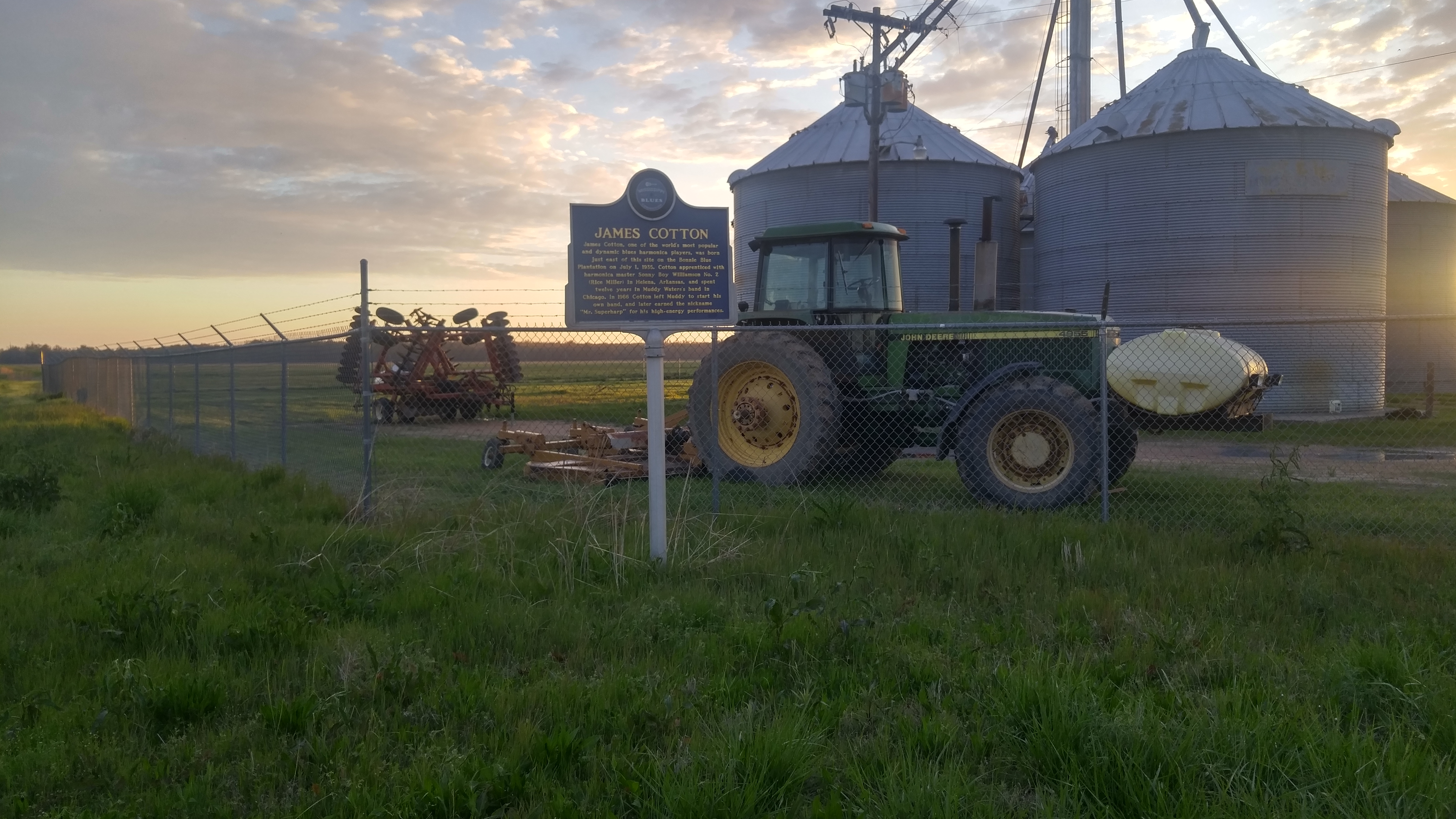 Blues trail marker located on US Highway 61 near Clayton